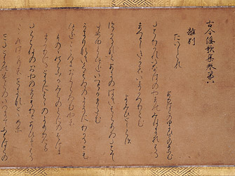 Collected Japanese Poems of Ancient and Modern Times (古今和歌集, Kokin Wakashū), Kōya edition